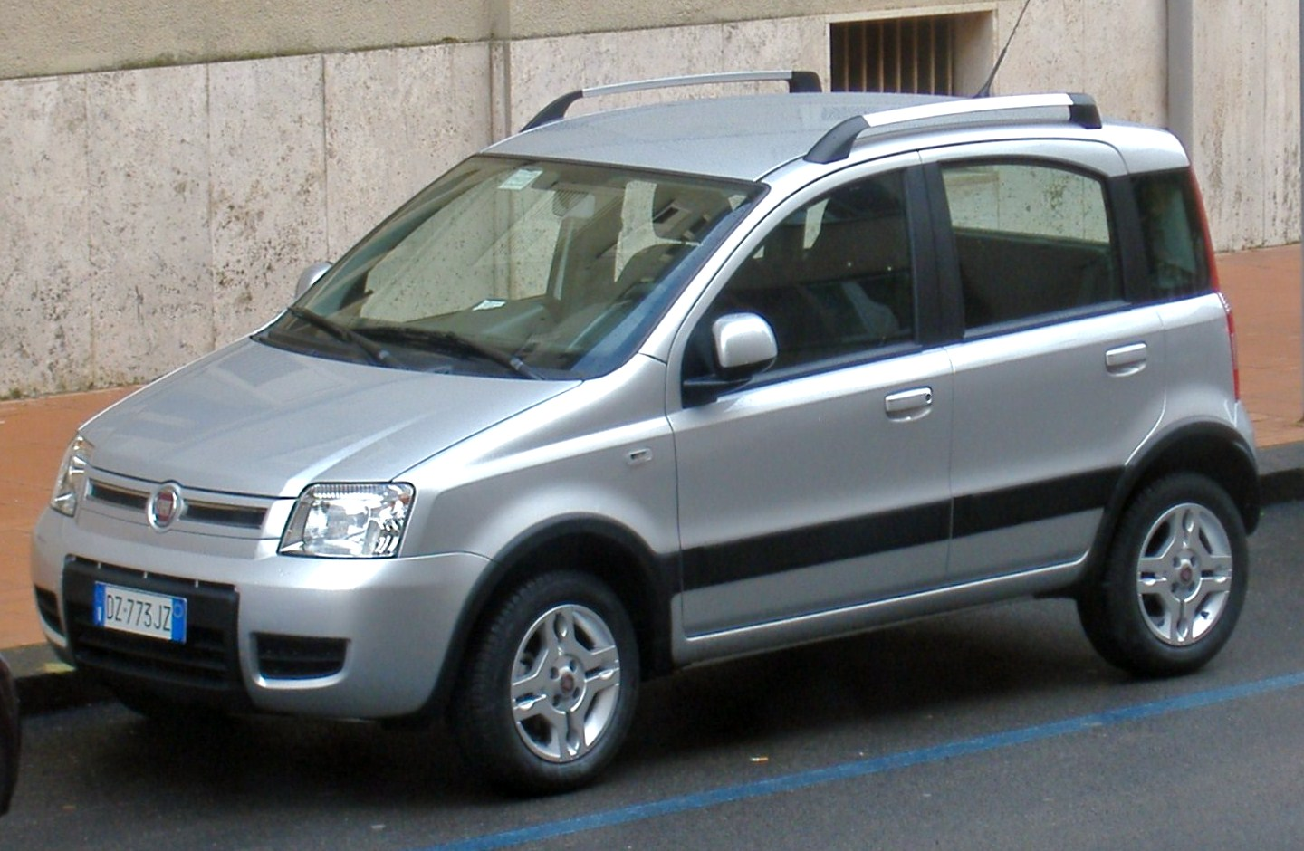 Fiat Panda 4x4 2010 facelift.